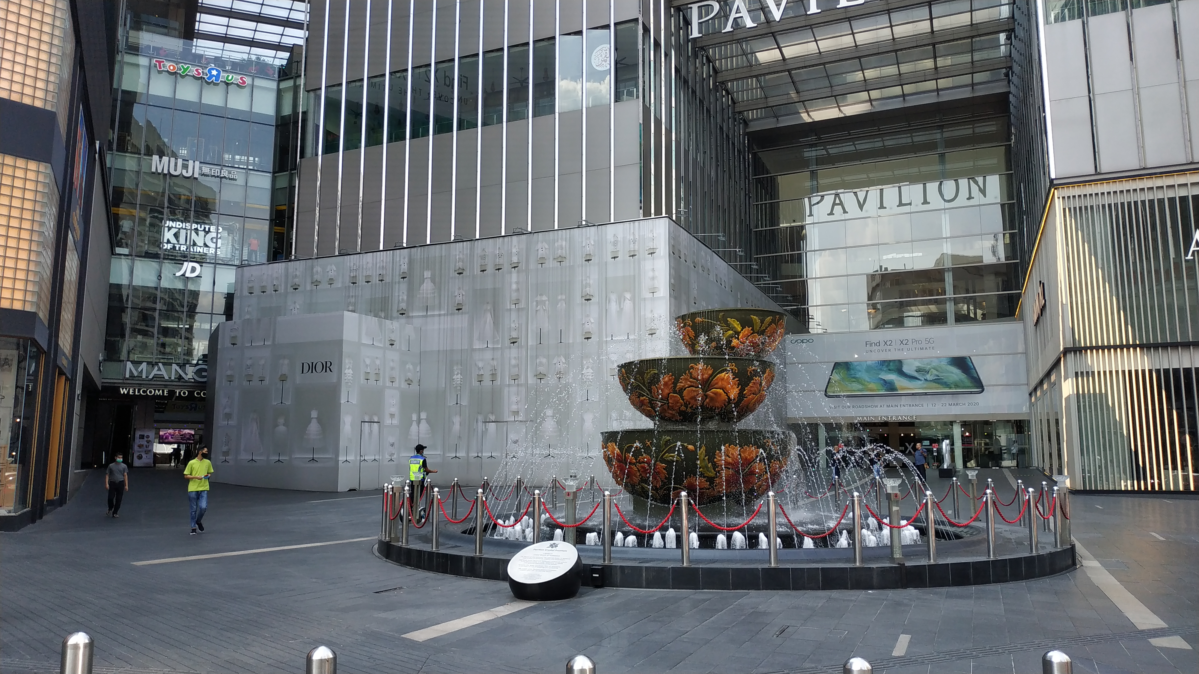 Pavilion Kuala Lumpur during Corona virus lockdown